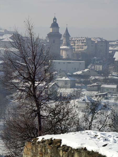 Seat Fortress of Suceava – wall on the west side and general view on the city center of Suceava.